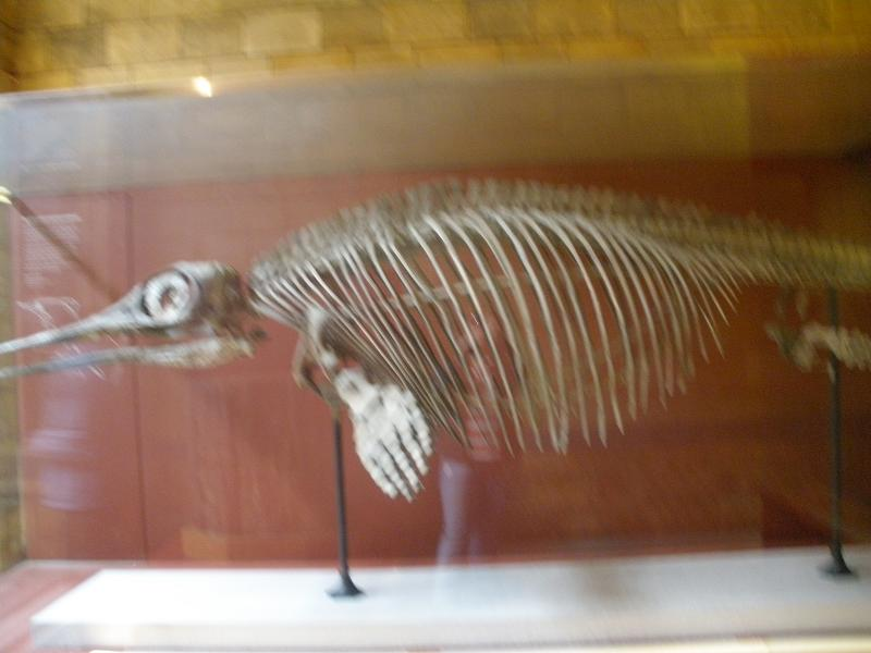 Ophthalmosaurus icenicus reconstruction at the Natural History Museum in London, England.